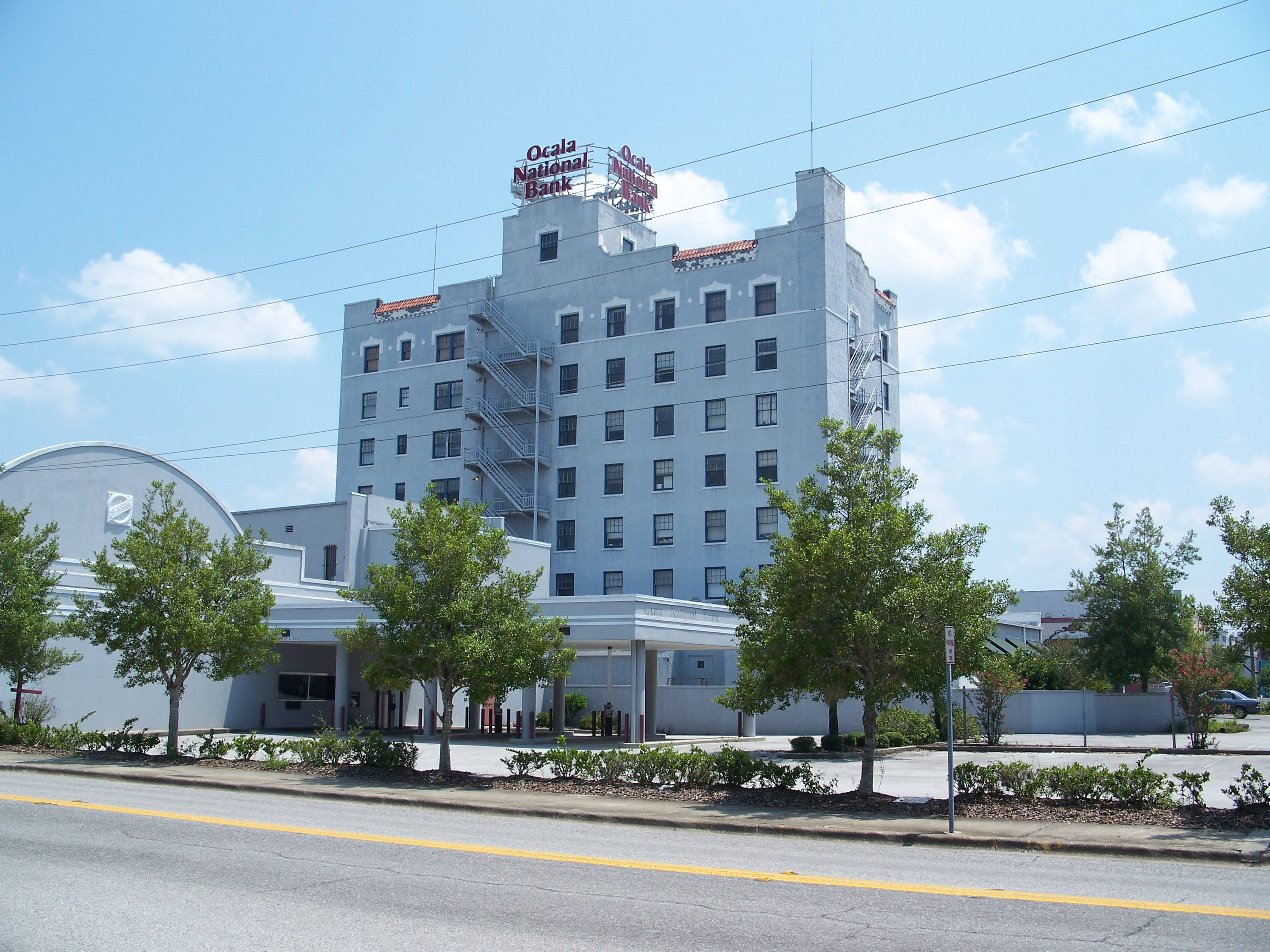 The former Marion Hotel, in Ocala, Florida